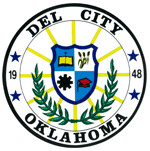 A picture of the Del City Seal taken from the side of a city maintenance truck.